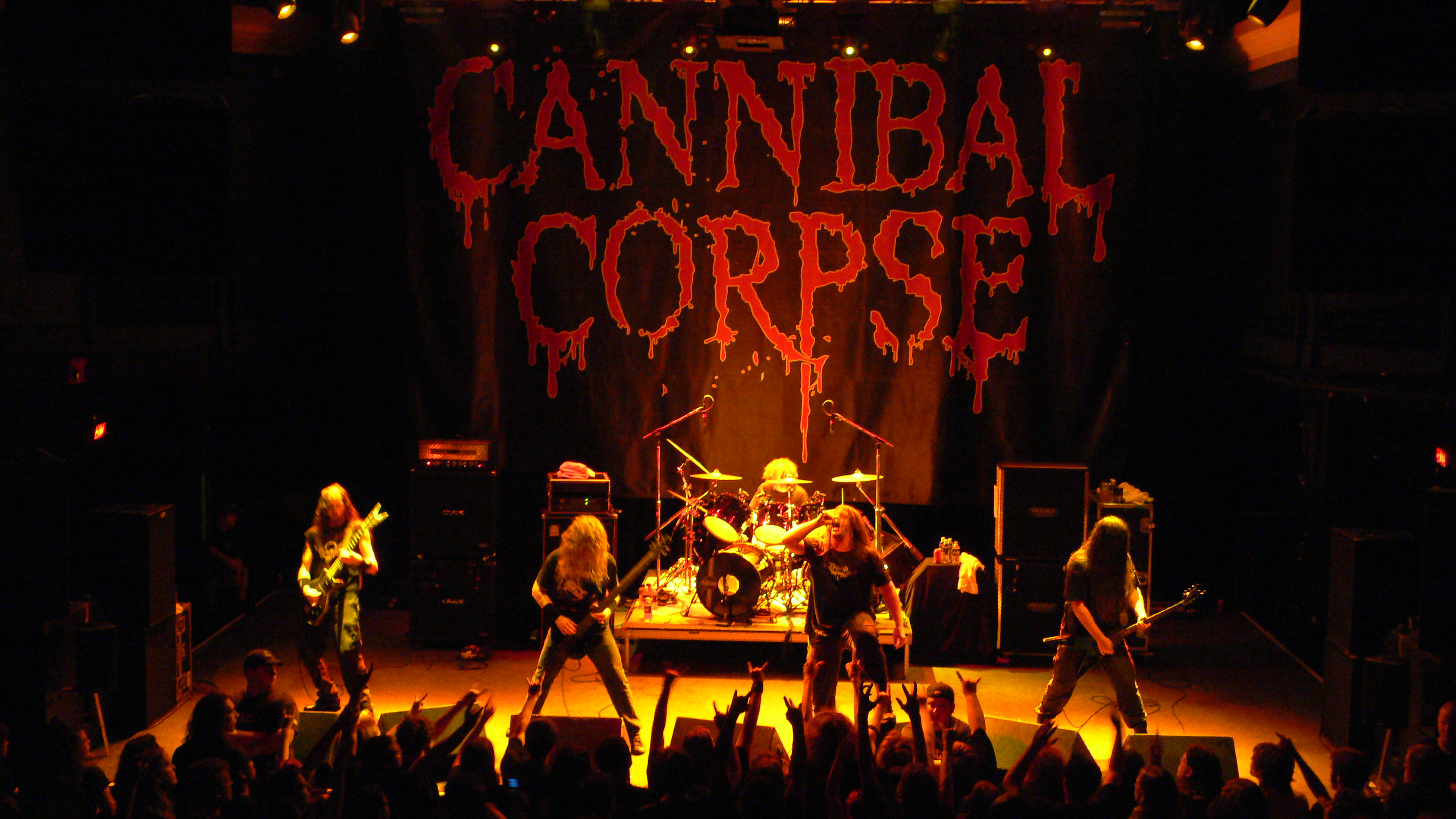 Cannibal Corpse playing at the 9:30 Club in Washington DC on 3 October 2007. You can see video I shot of them at this show on YouTube by clicking on the song titles below: Hammer Smashed Face and Stripped Raped And Strangled